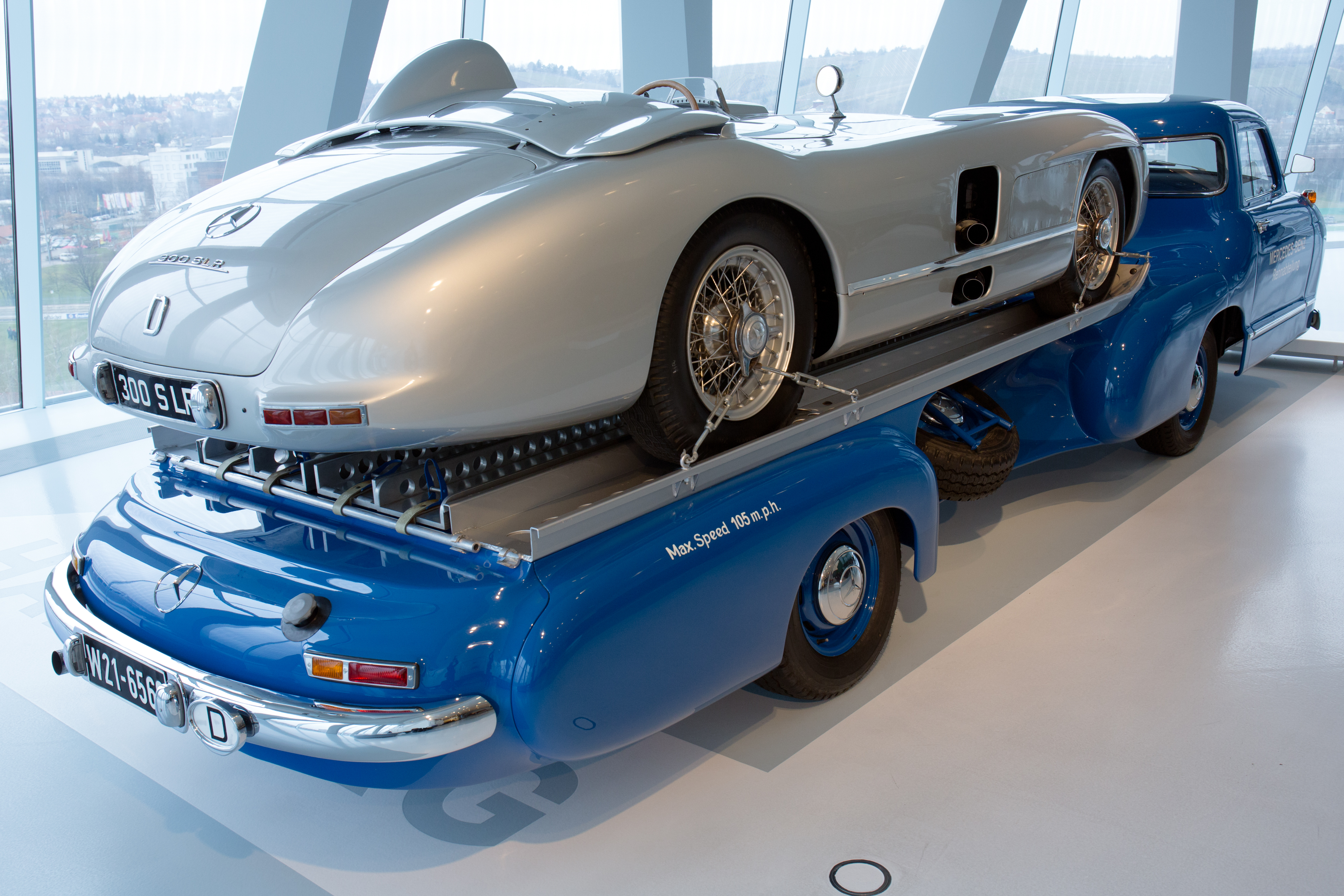 Replica 1955 Mercedes-Benz Rennwagen-Schnelltransporter "Blaues Wunder" (high-speed racing car transporter "Blue Wonder") and the 1955 Mercedes-Benz 300 SLR